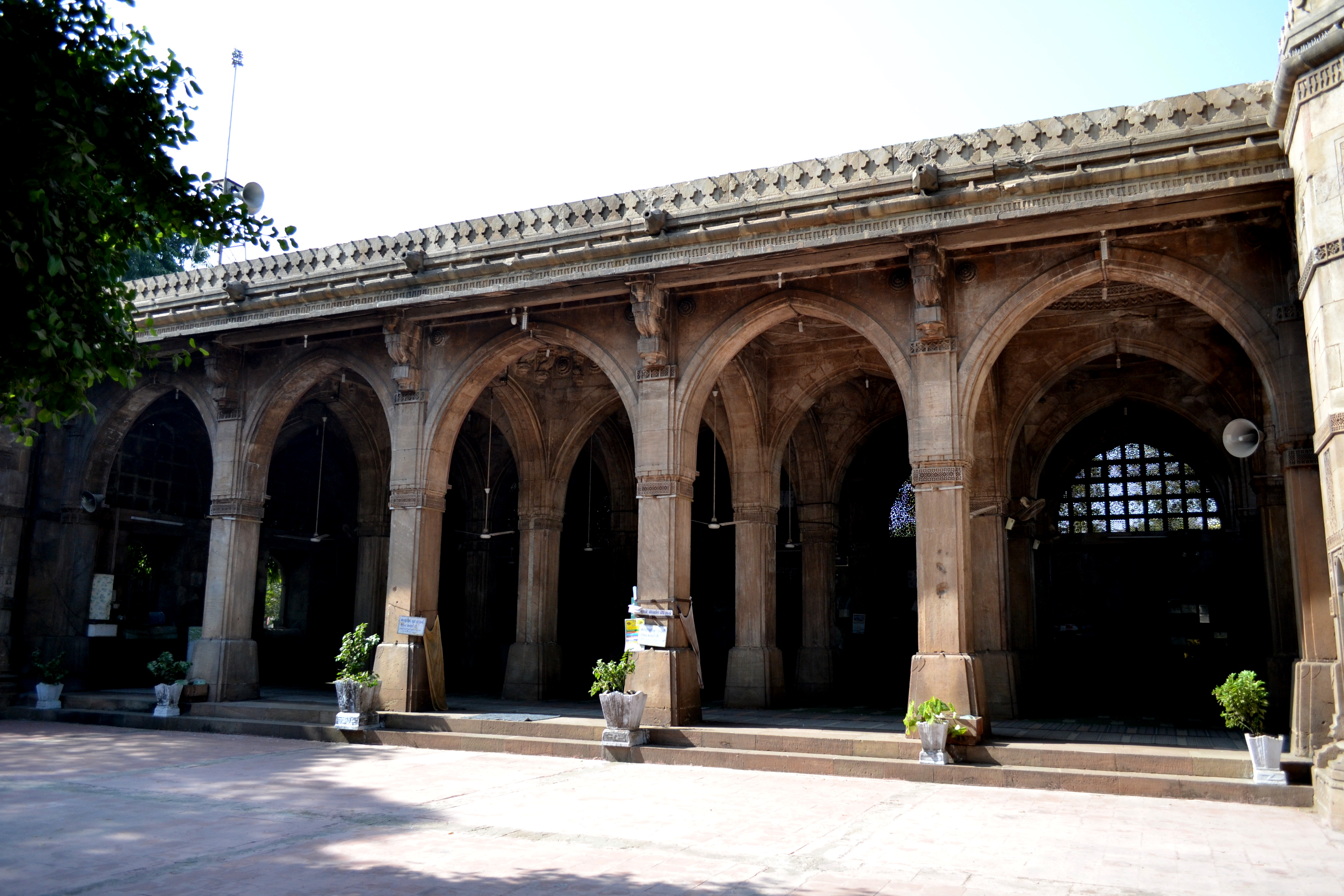 Sidi Saiyyed Mosque